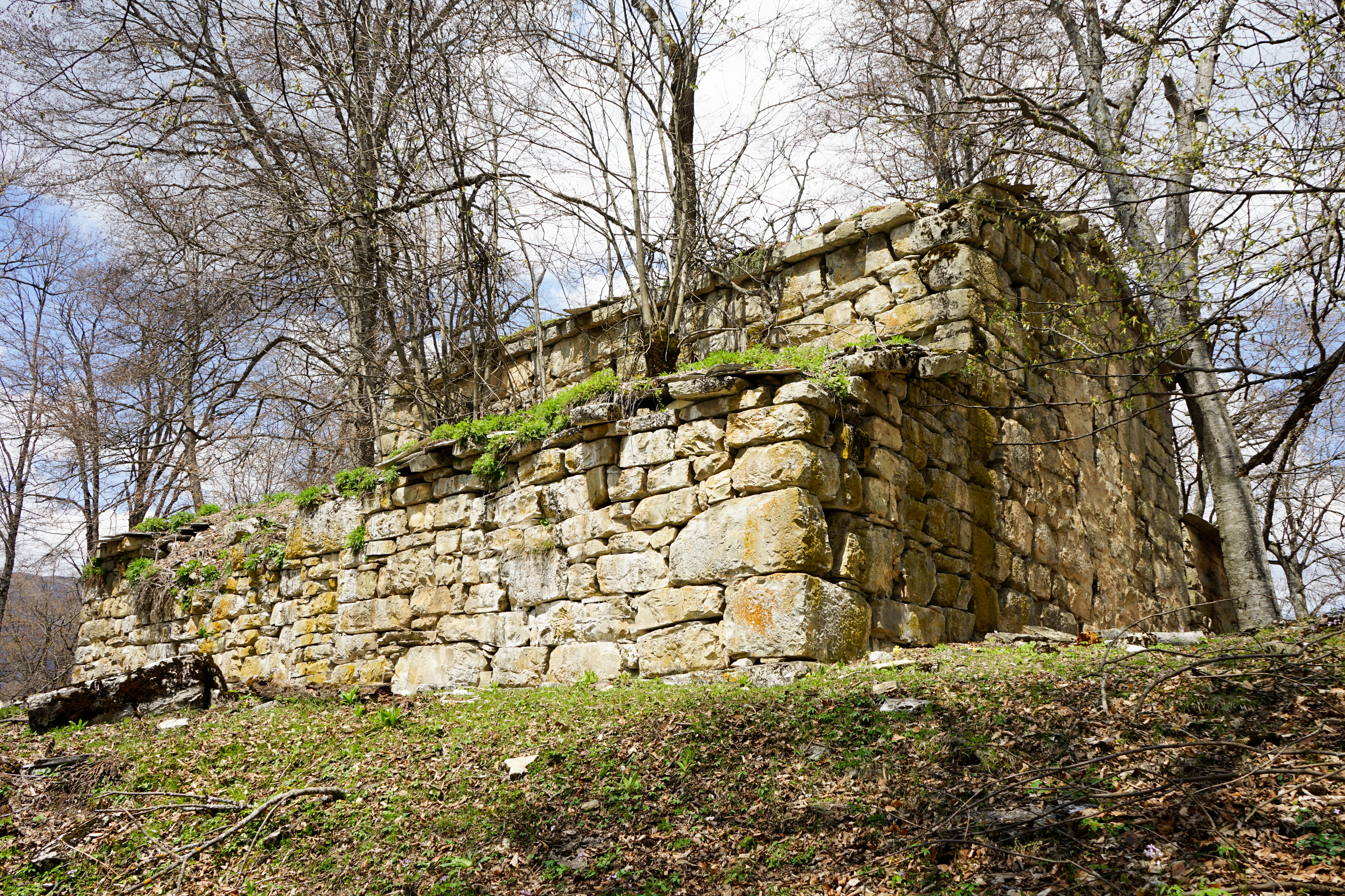 Saint George Church of Mzetsveri (IX-X cc.), Buchaani, Mtskheta-Mtianeti, Georgia